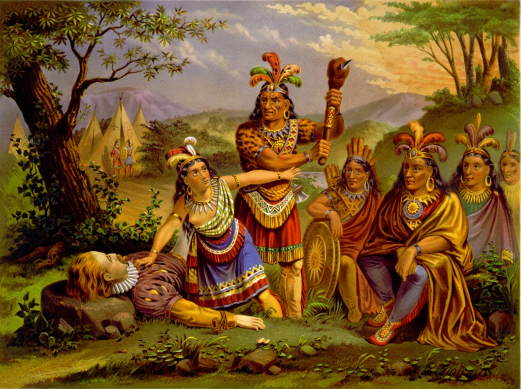 Artist depiction of Pocahontas saving the life of Capt. John Smith. MEDIUM: 1 print : chromolithograph, color. B size.